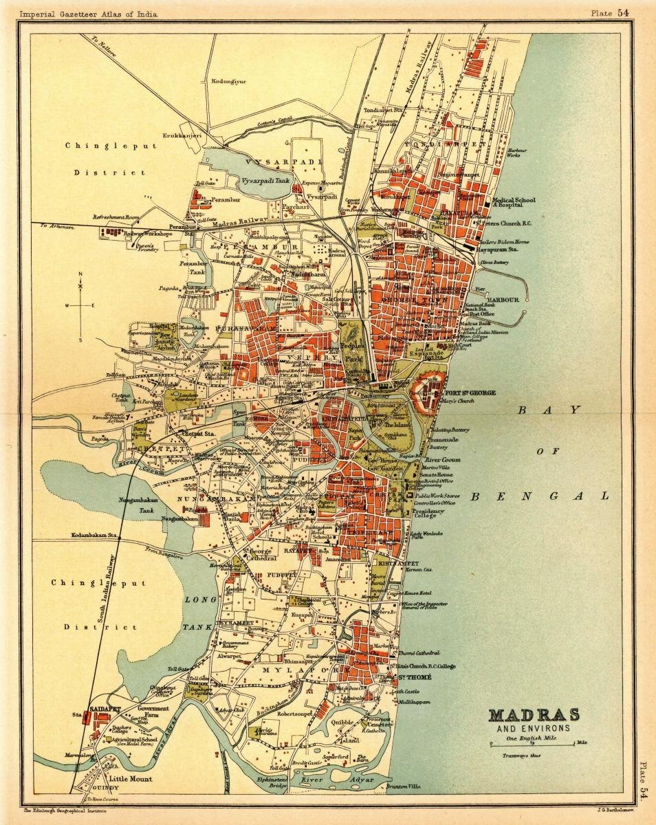 Map of the presidency town of Madras from Imperial Gazetteer of India, volume 26, Atlas, Oxford University Press. 1908. Scanned from personal copy, reduced, and uploaded by Fowler&fowler«Talk» 21:49, 7 March 2009 (UTC)